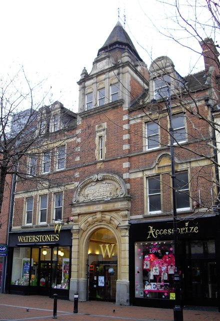 Broad Street Independent Chapel Build in 1707 the frontage was added in 1892